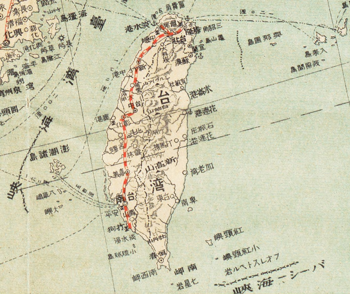 Japanese made map of Qing China during the Wuchang Uprising